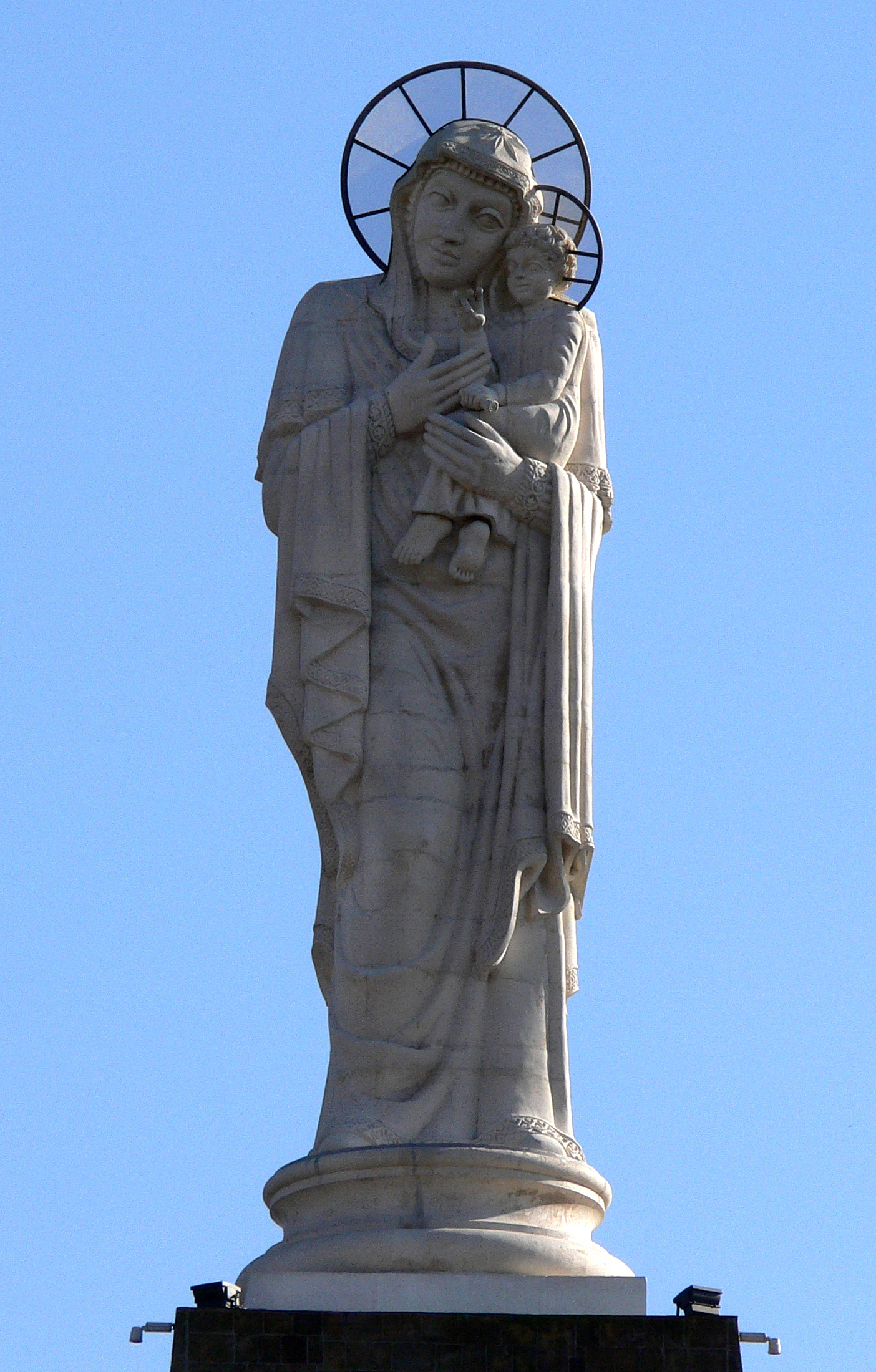 The Monument of the Holy Mother of God, the world's highest monument to Virgin Mary in Haskovo, Bulgaria.